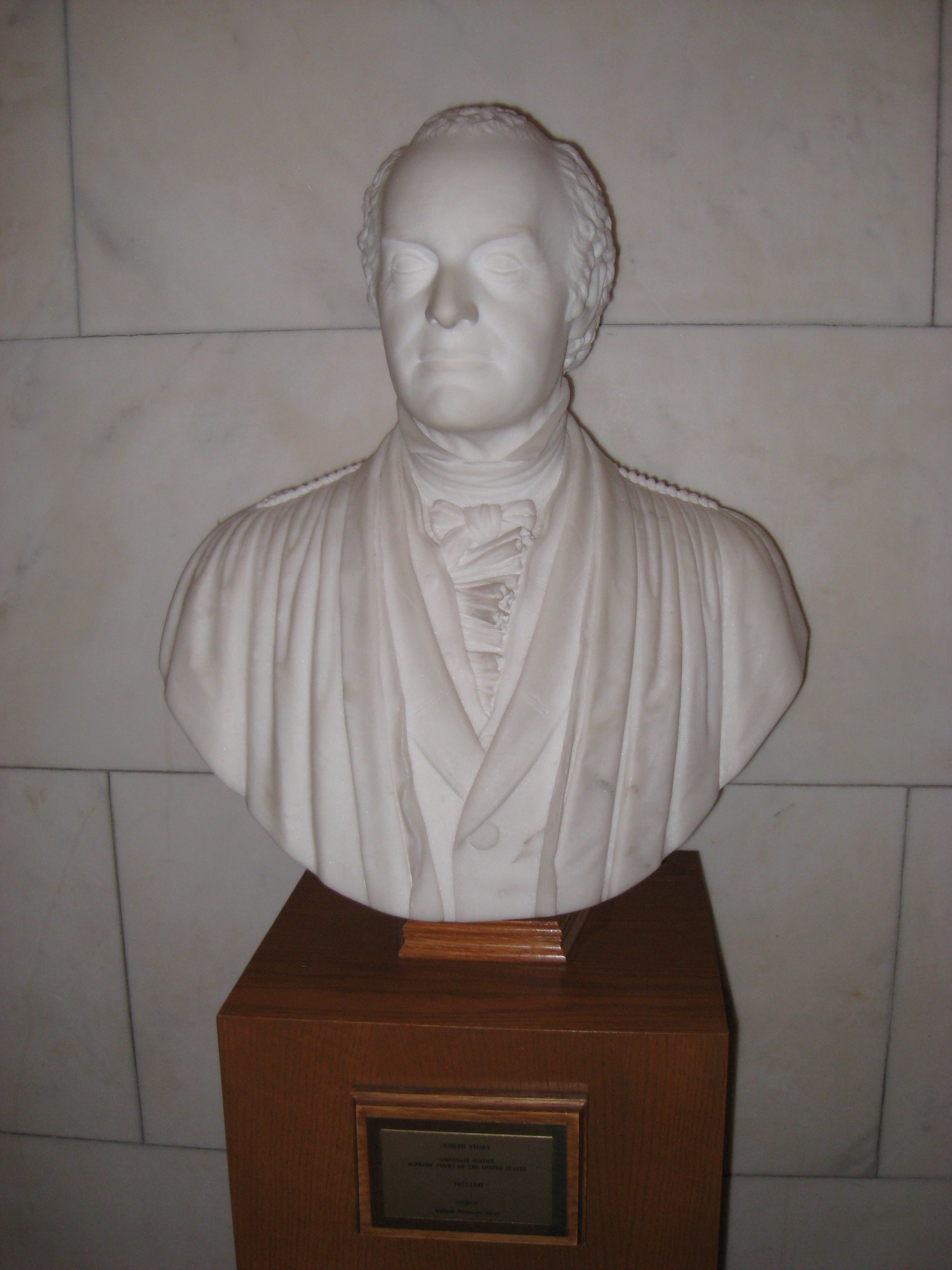 Joseph Story bust by William Wetmore Story, US Supreme Court, Washington, DC, USA.